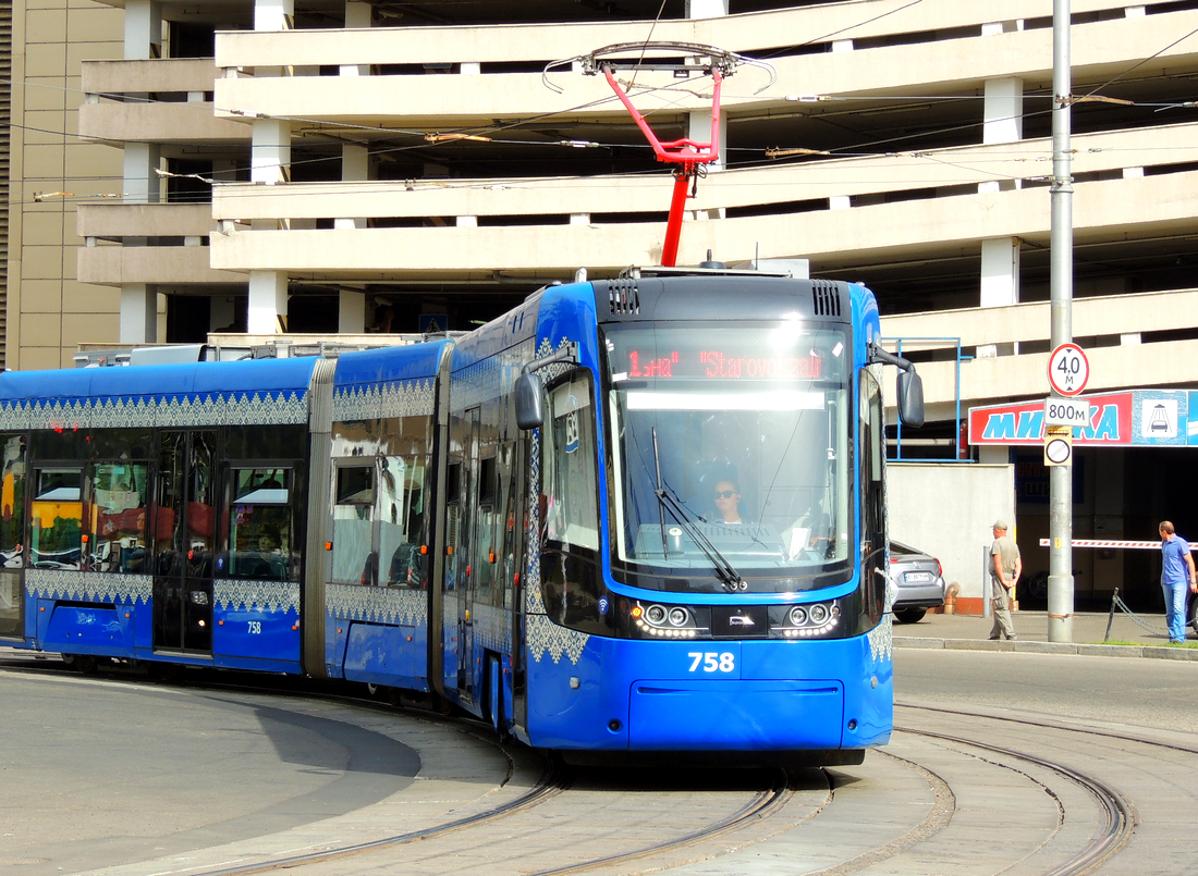 Pesa Fokstrot Tram in Kyiv